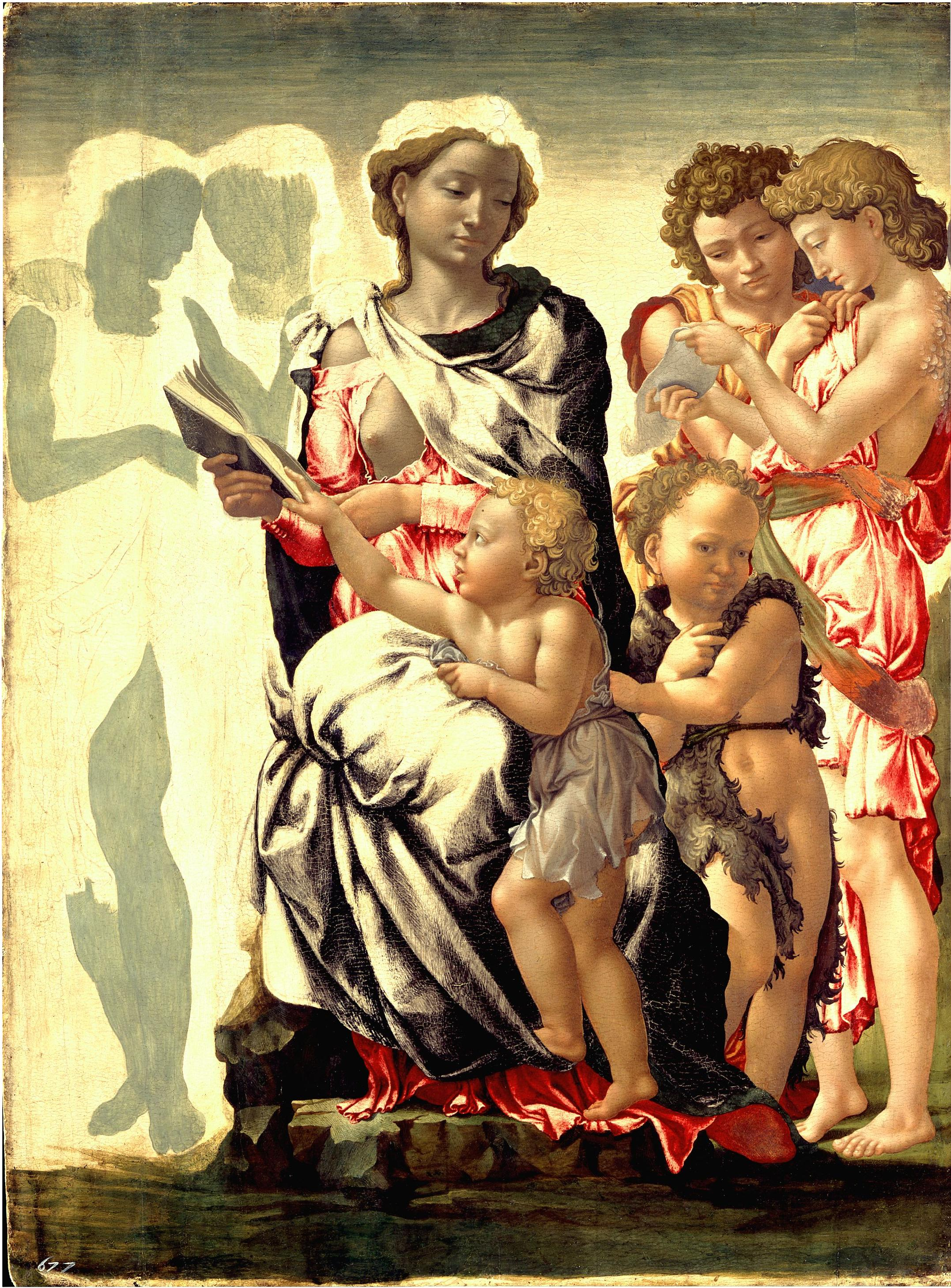 "The Virgin and Child with Saint John and Angels ('The Manchester Madonna')'" (1497), National Gallery, London